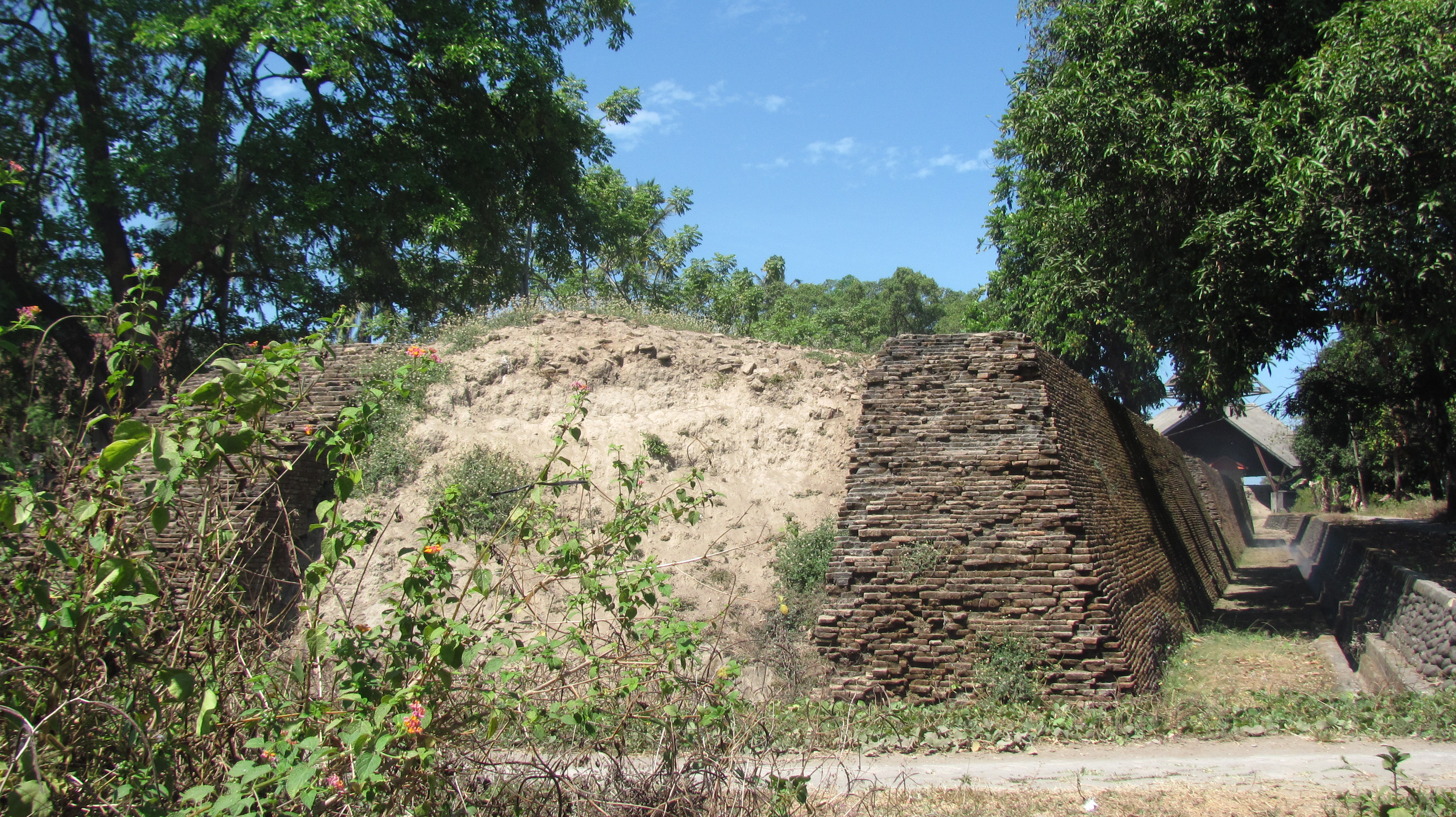 Western wall, Fort "Benteng Samba Opu", Sungguminasa near Makassar, Sulawesi, Indonesia